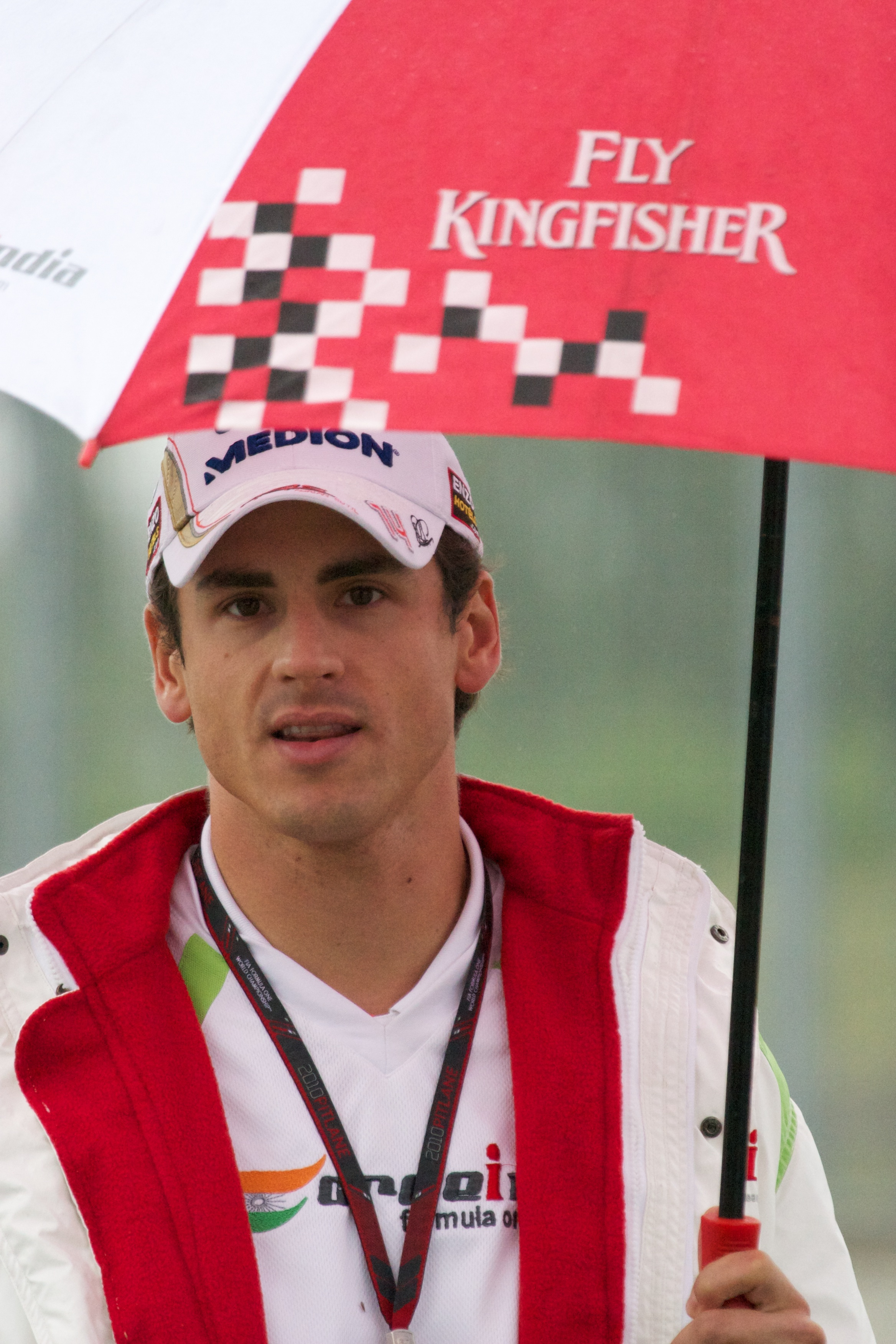 Formula One 2010 Rd.8 Canadian GP: Adrian Sutil (Force India)